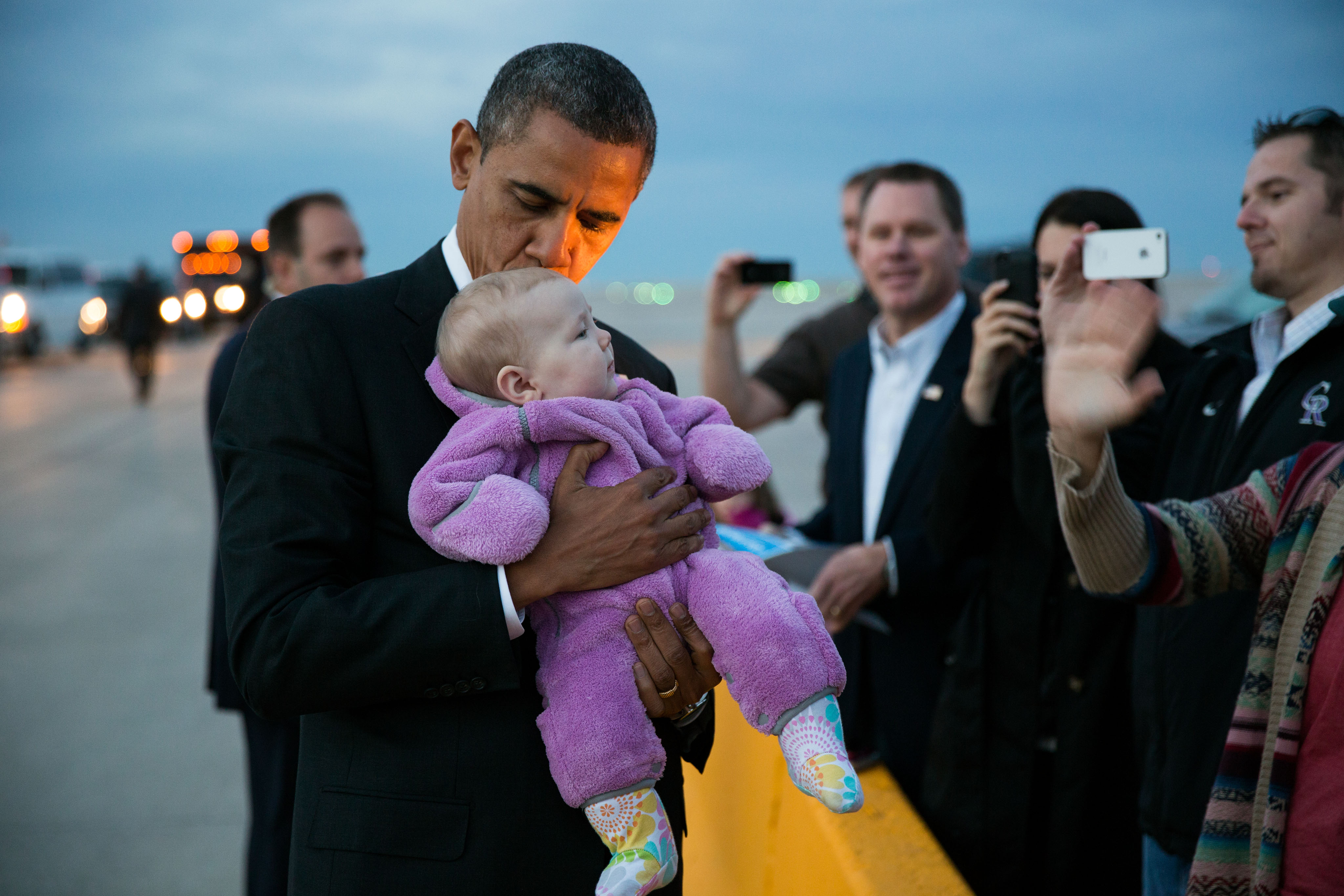 President Barack Obama kisses a baby on the tarmac following his arrival at Denver International Airport in Denver, Colo., Nov. 1, 2012. (Official White House Photo by Pete Souza)